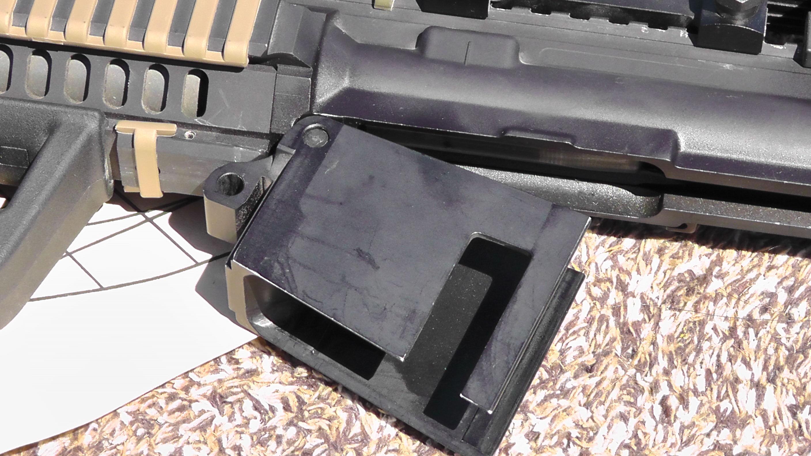 5.56/.223 upper reciever adapter for the Colt LE901.